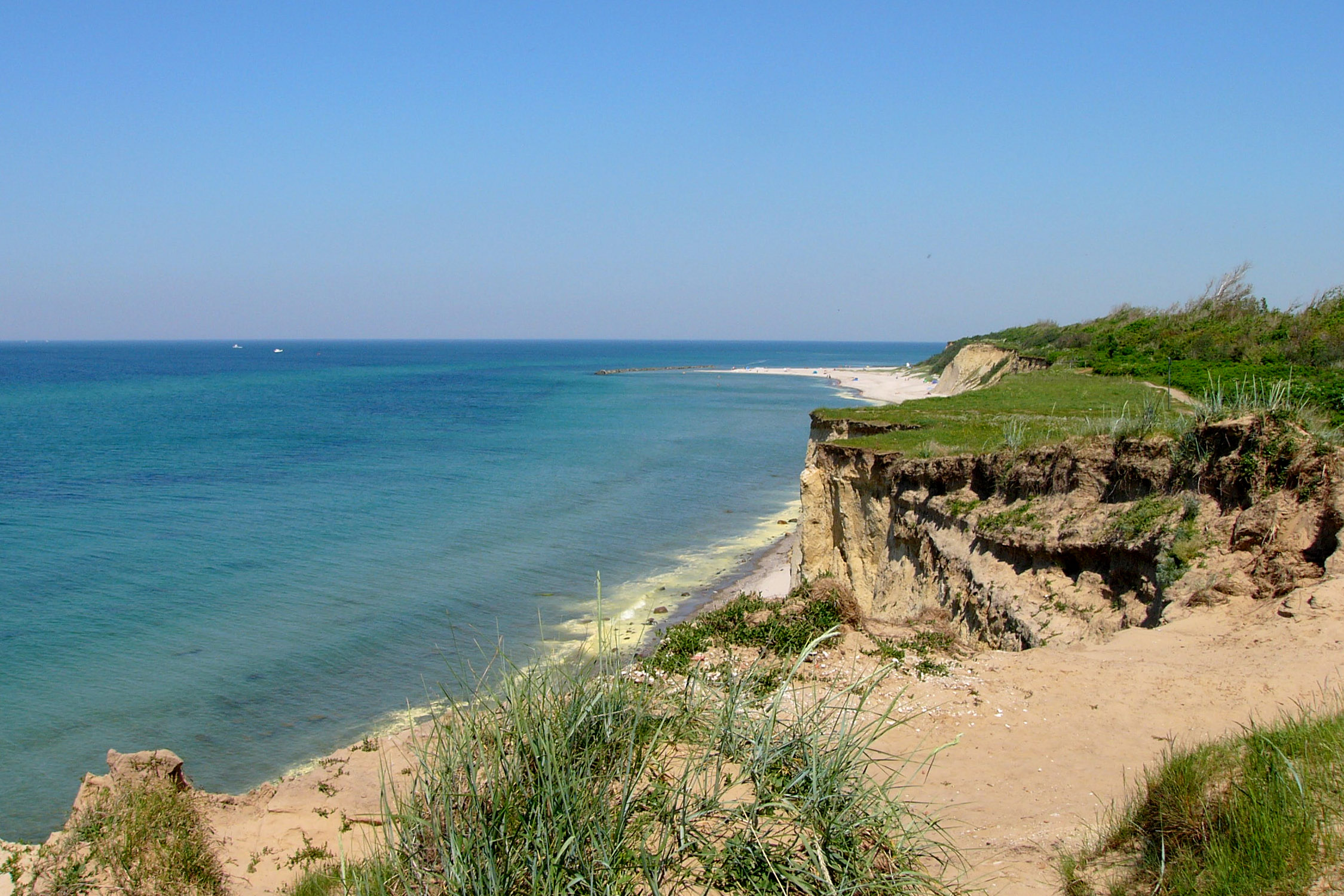 Steep coast and beach at peninsula Darss West Beach near Ahrenshoop, Mecklenburg-Vorpommern, Germany. Pomerania Beach, as its part of the Pomeranian lands.